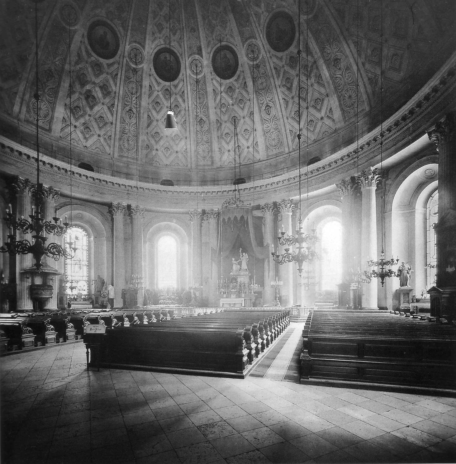 The Catholic St Hedwig's church at Opernplatz (today: Bebelplatz) in Berlin (Germany). Erected between 1747 and 1773. Interior.